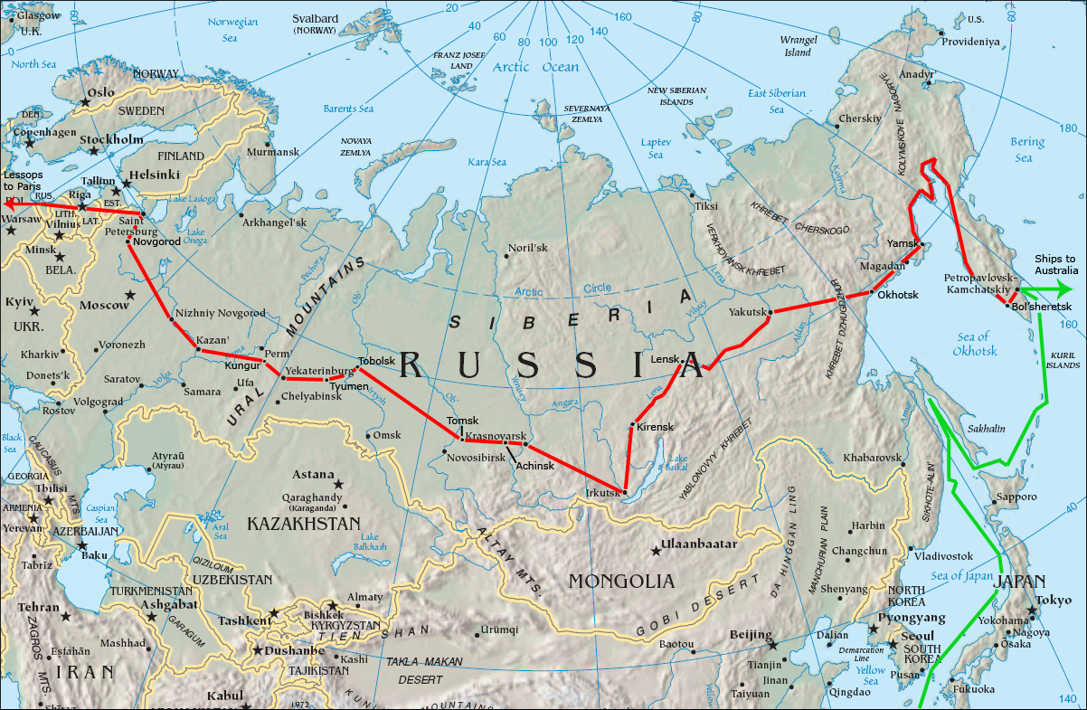 Map of the journey taken by Barthélemy de Lesseps if the La Pérouse expedition to cross Russia carrying official reports and journals, then on to Paris.